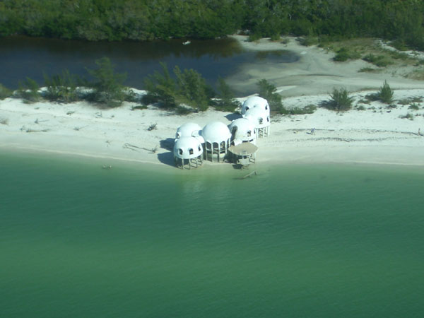 Cape Romano from an airplane.